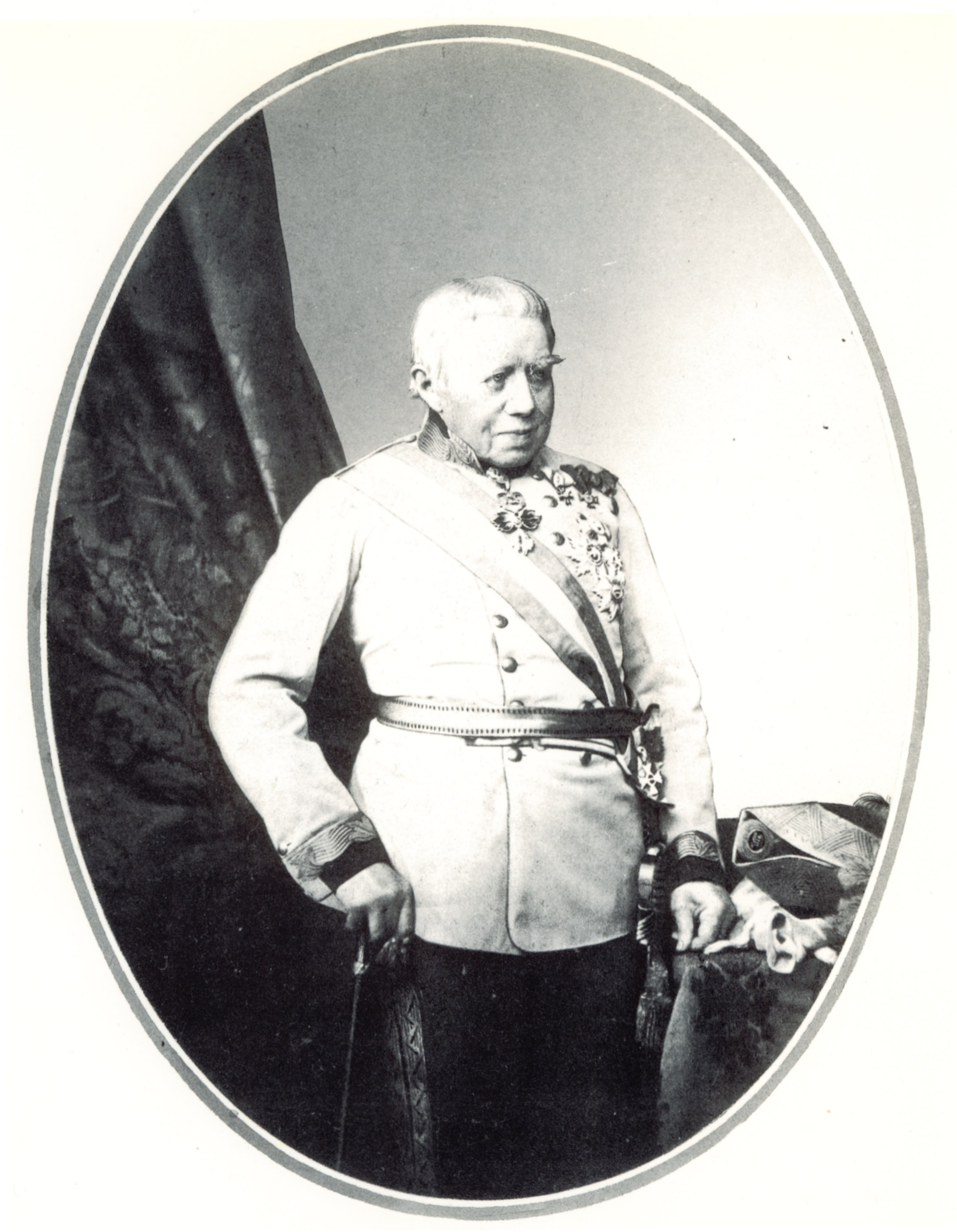 Field Marshal Count Johann Joseph Wenzel Radetzky von Radetz in 1857, roughly one year before his death.